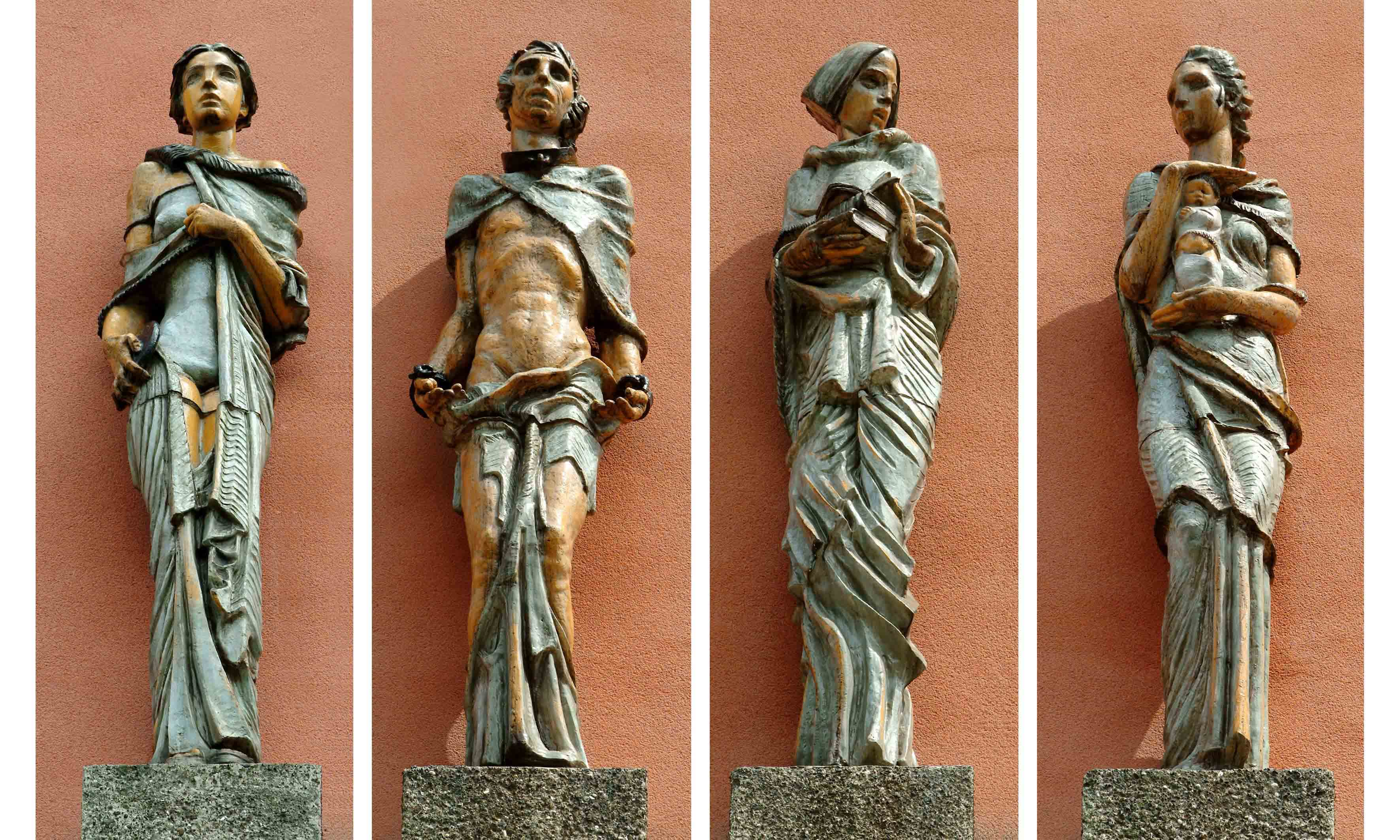 Karl Marx Hof (Vienna 19, Heiligenstädter Straße 82-92), ceramic sculptures: Physicalculture - Liberation - Education - child welfare, Josef Franz Riedl (born 12.03.1884 Vienna - + 16.11.1965 Vienna).